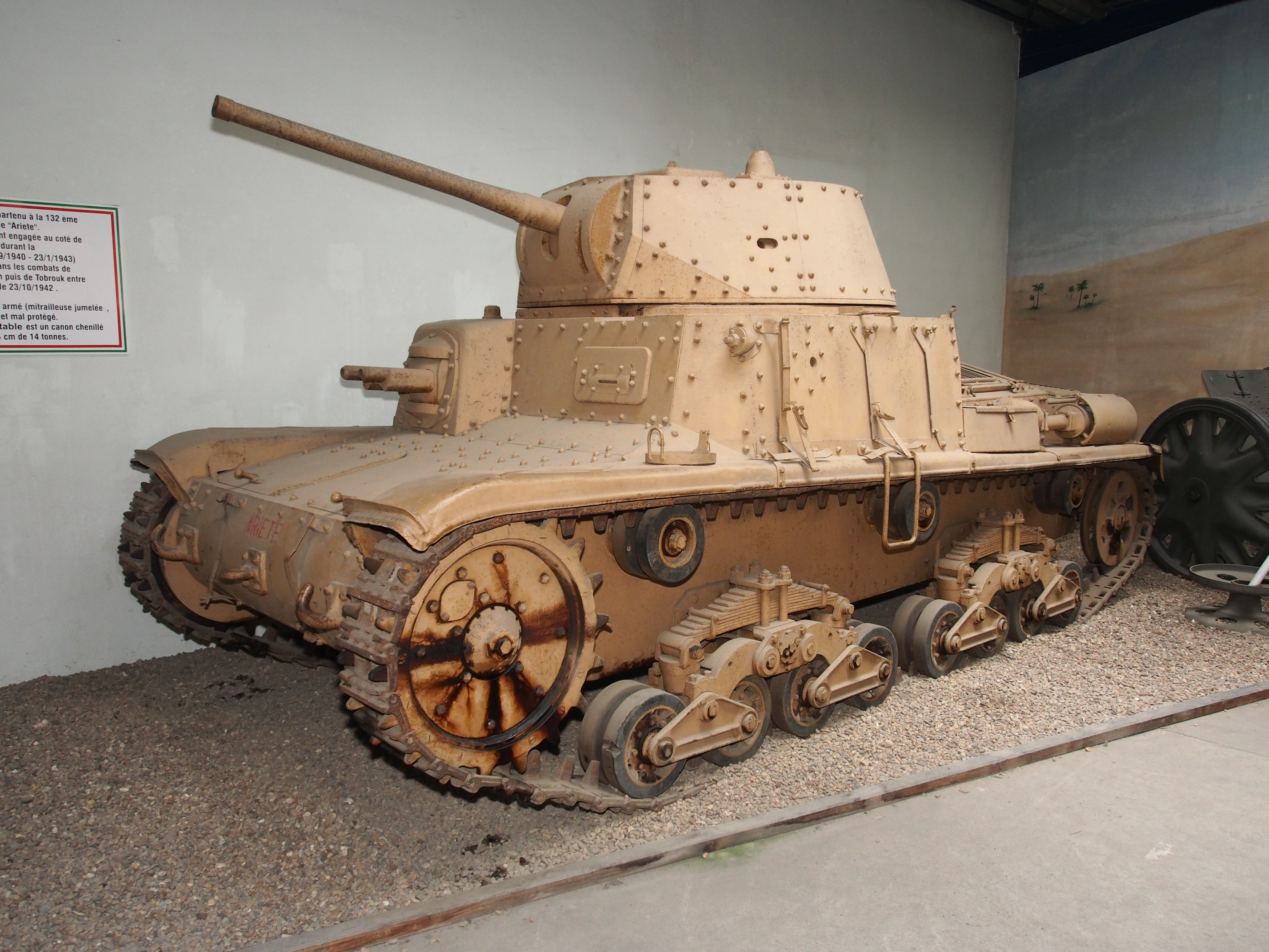 Photographed in the Musée des Blindés, France.